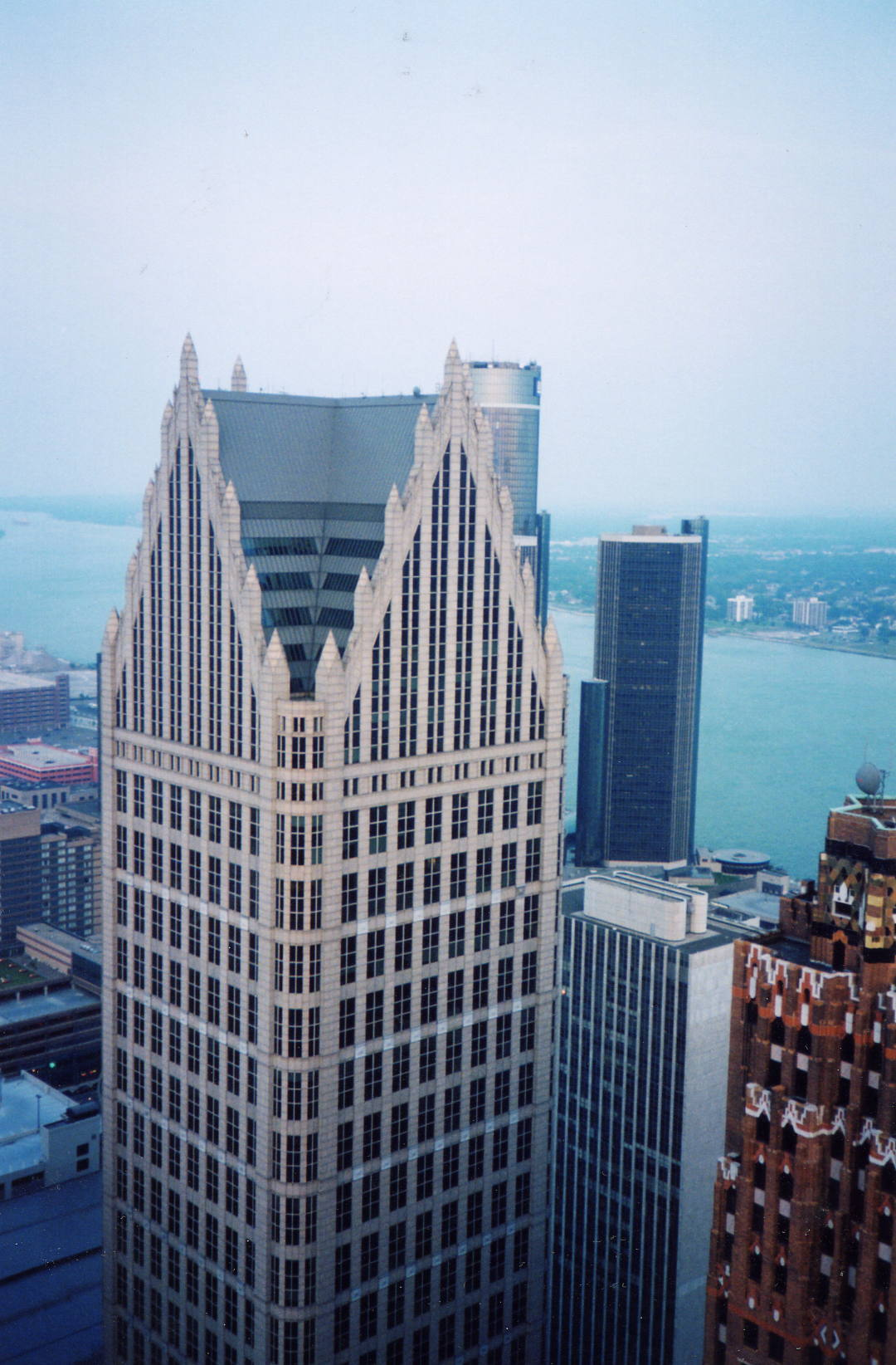 Comerica Tower lies adjacent to the Guardian Building, and is not far from the Renaissance Center.